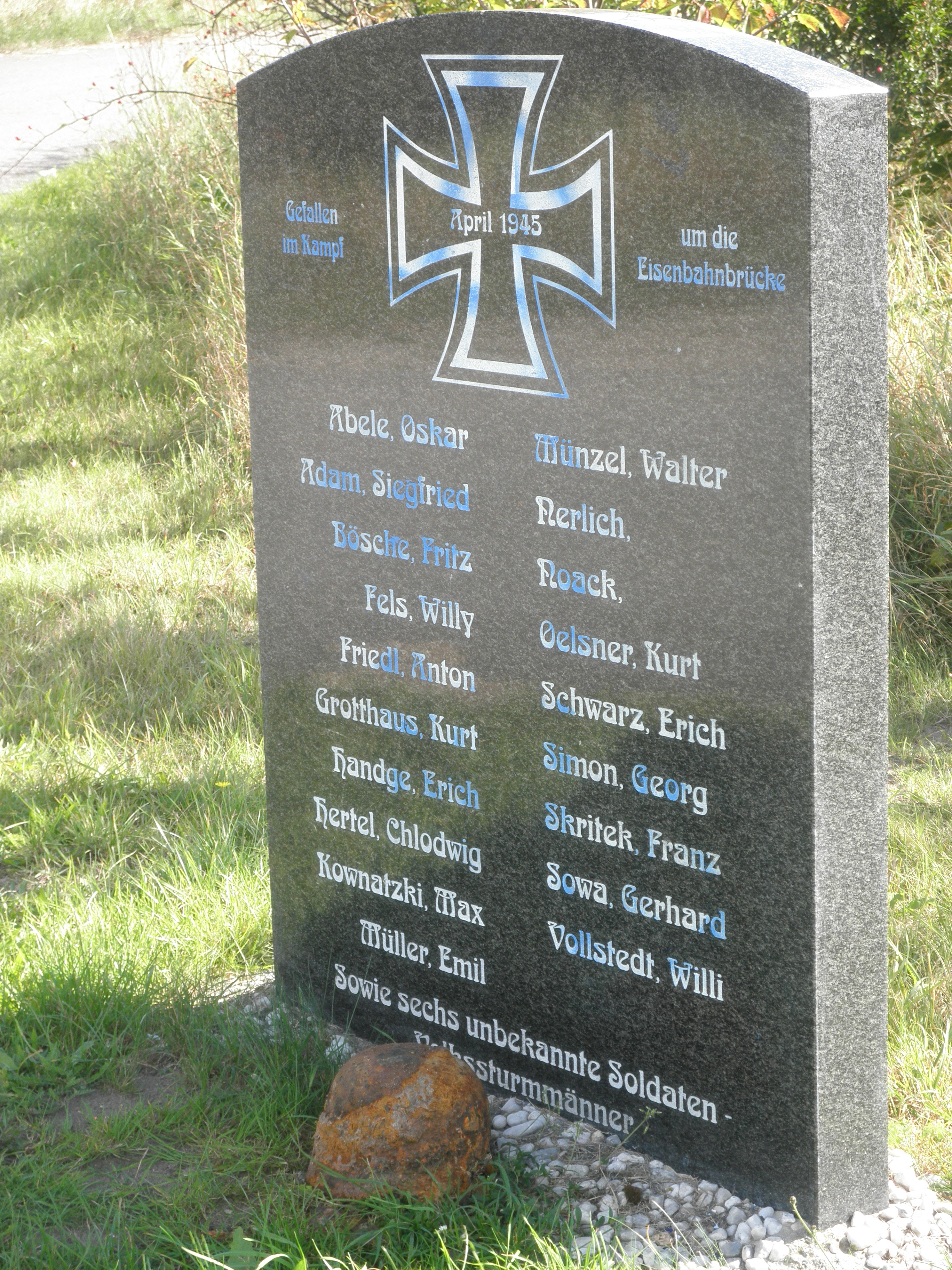 Memorial 1945 near Elbe Bridge of Hämerten in Saxony-Anhalt